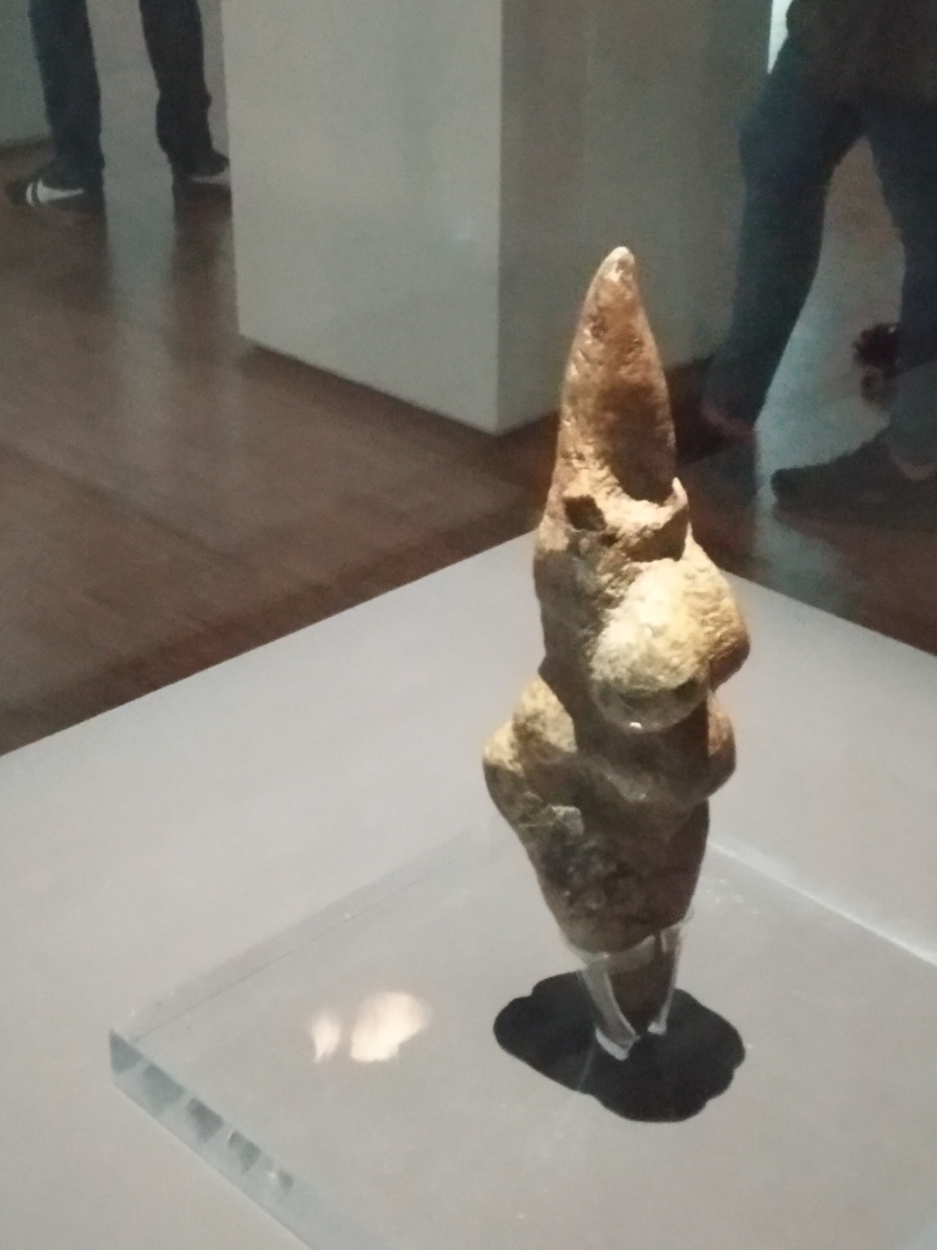 shown in a temporary expo in Centre Pompidou, 2019